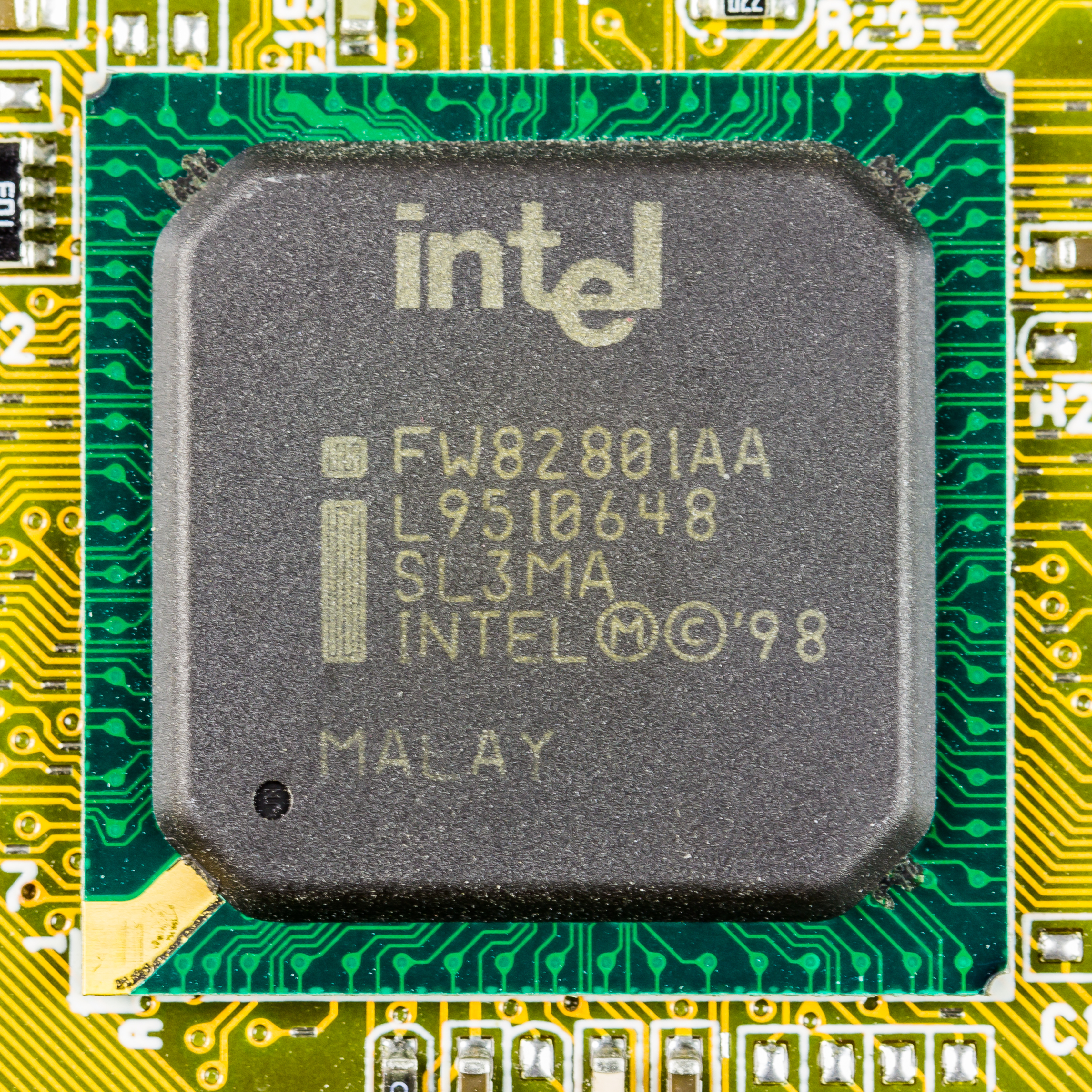 Asus P3C2000 - Intel FW82801AA - I/O Controller Hub (Southbridge). 241 BGA package